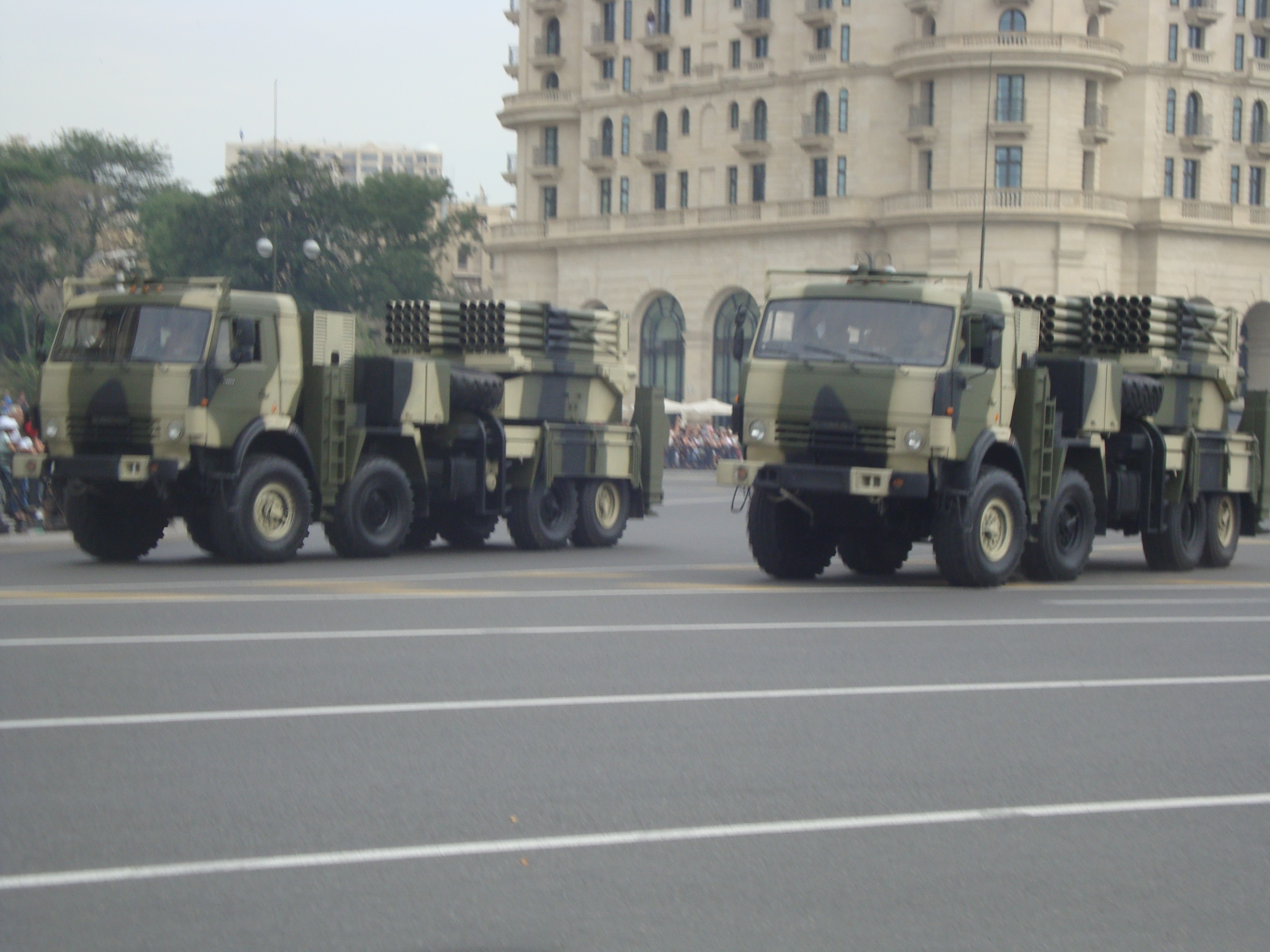 Azeri Roketsan Т-122 Sakarya